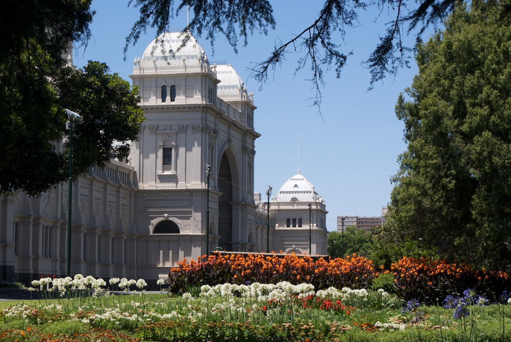 Royal Exhibition Building Melbourne gardens